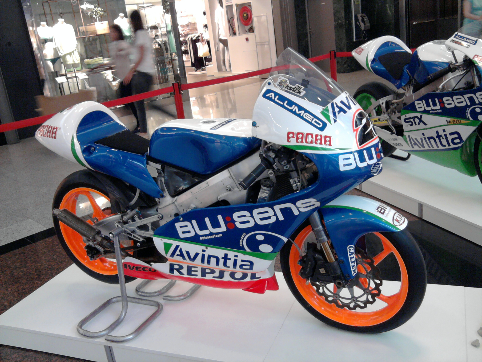 Left: Honda Moto3 of the Blusens Avintia team, ridden by Maverick Viñales in the season 2012. Shown at commercial center Alcampo in Mataró (Catalonia).